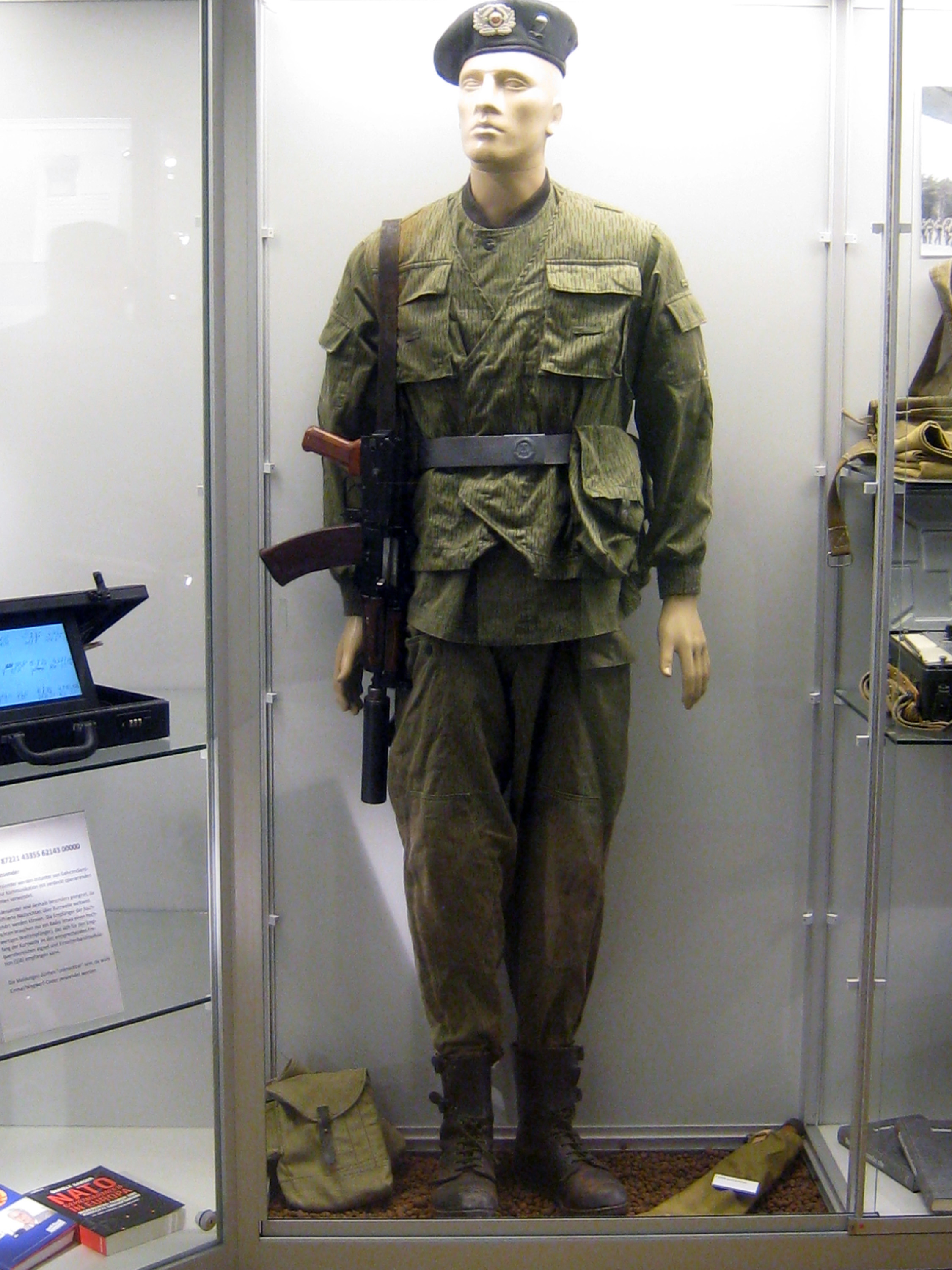 Armed forces of the GDR until 1990, National People’s Army – Uniforms, here “Field service uniform paratrooper” (weapon: AKS-74U with silencer).